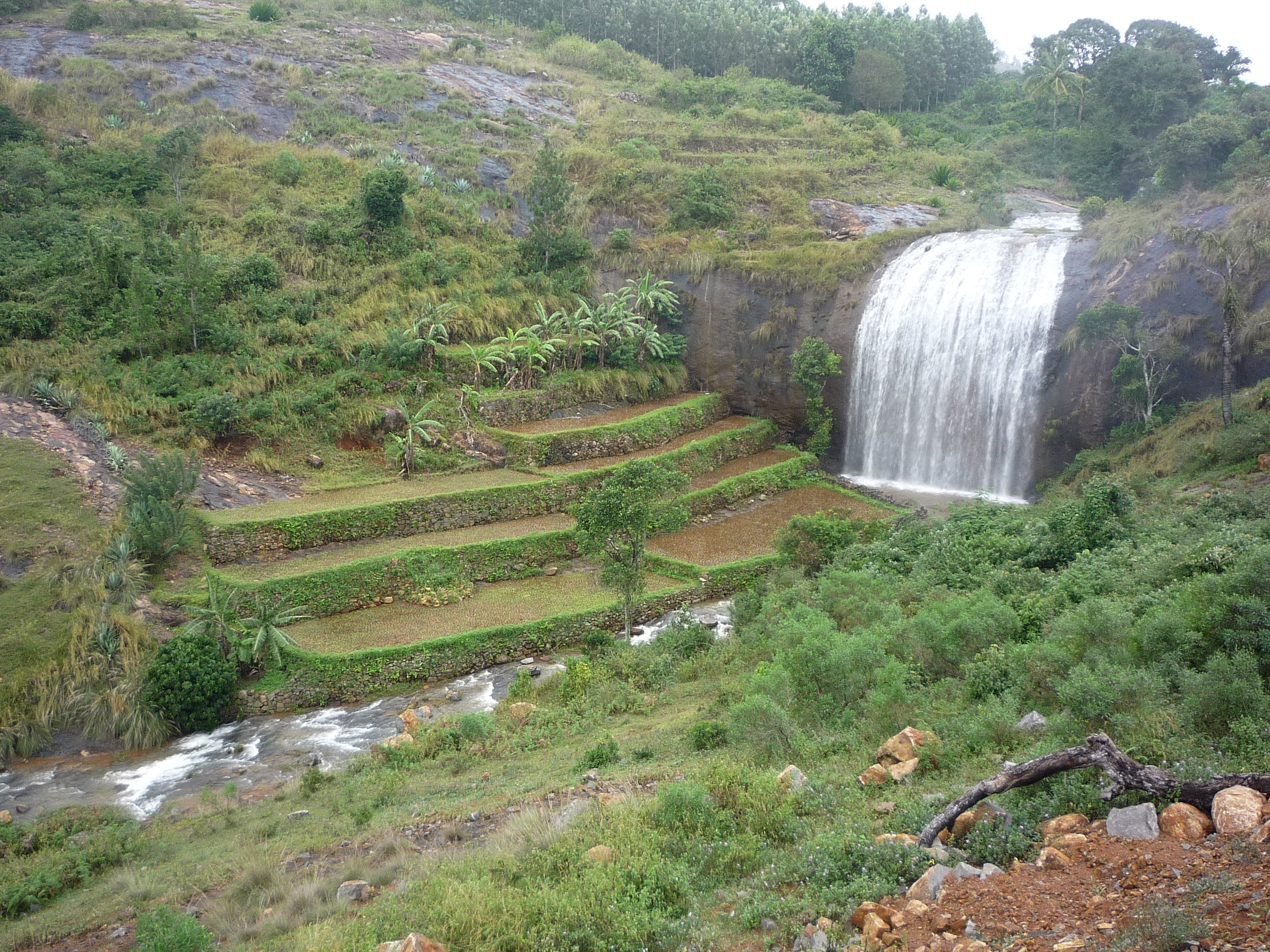 மசிலா அருவி கொல்லிமலை